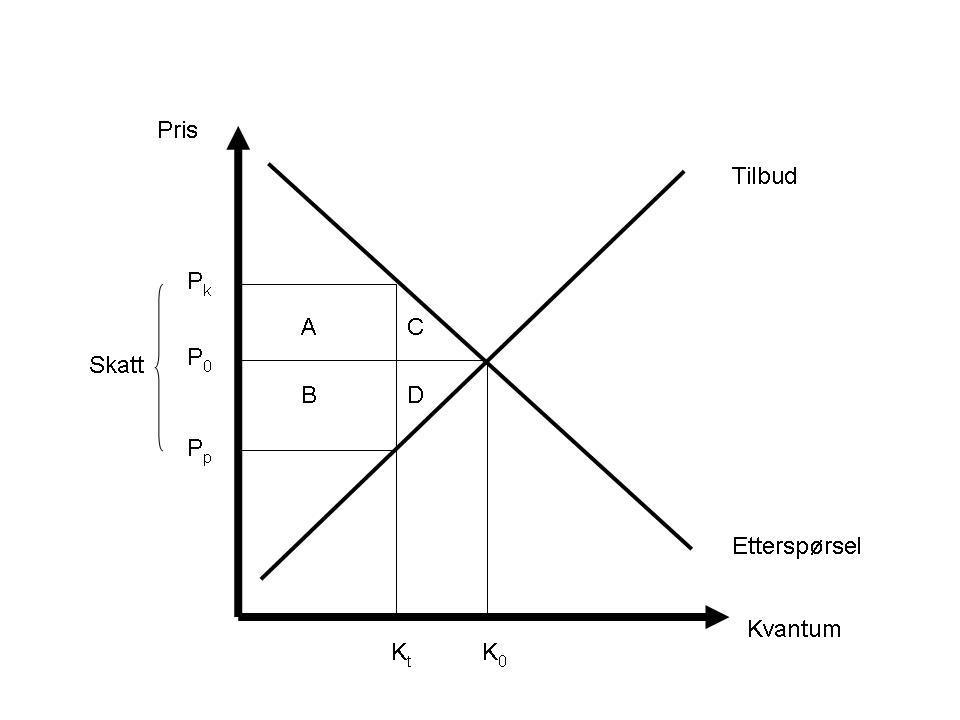 The effect of a commodity tax in a price quantity diagram. Norsk (bokmål): Effekten av en skatt på en vare i et pris-kvantum-diagram.